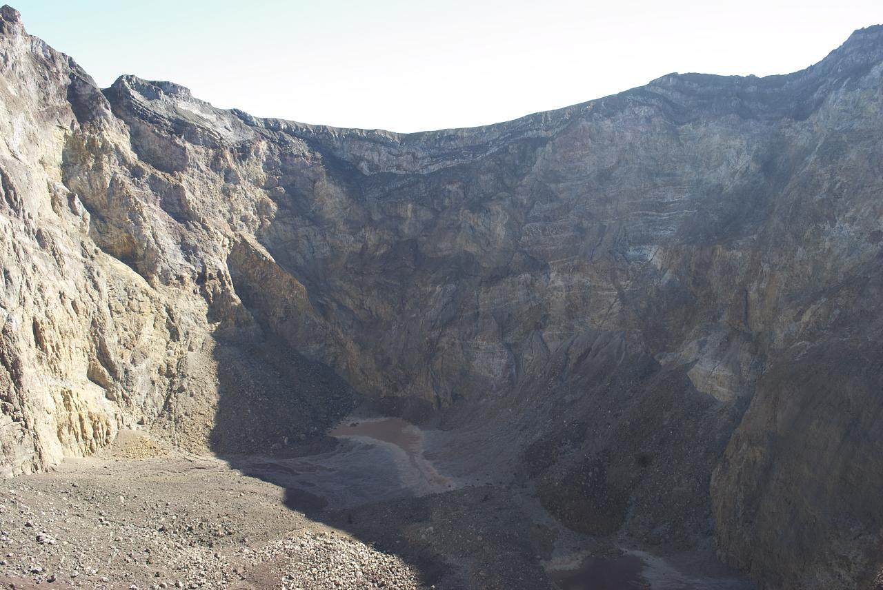 Summit crater of Mount Agung.